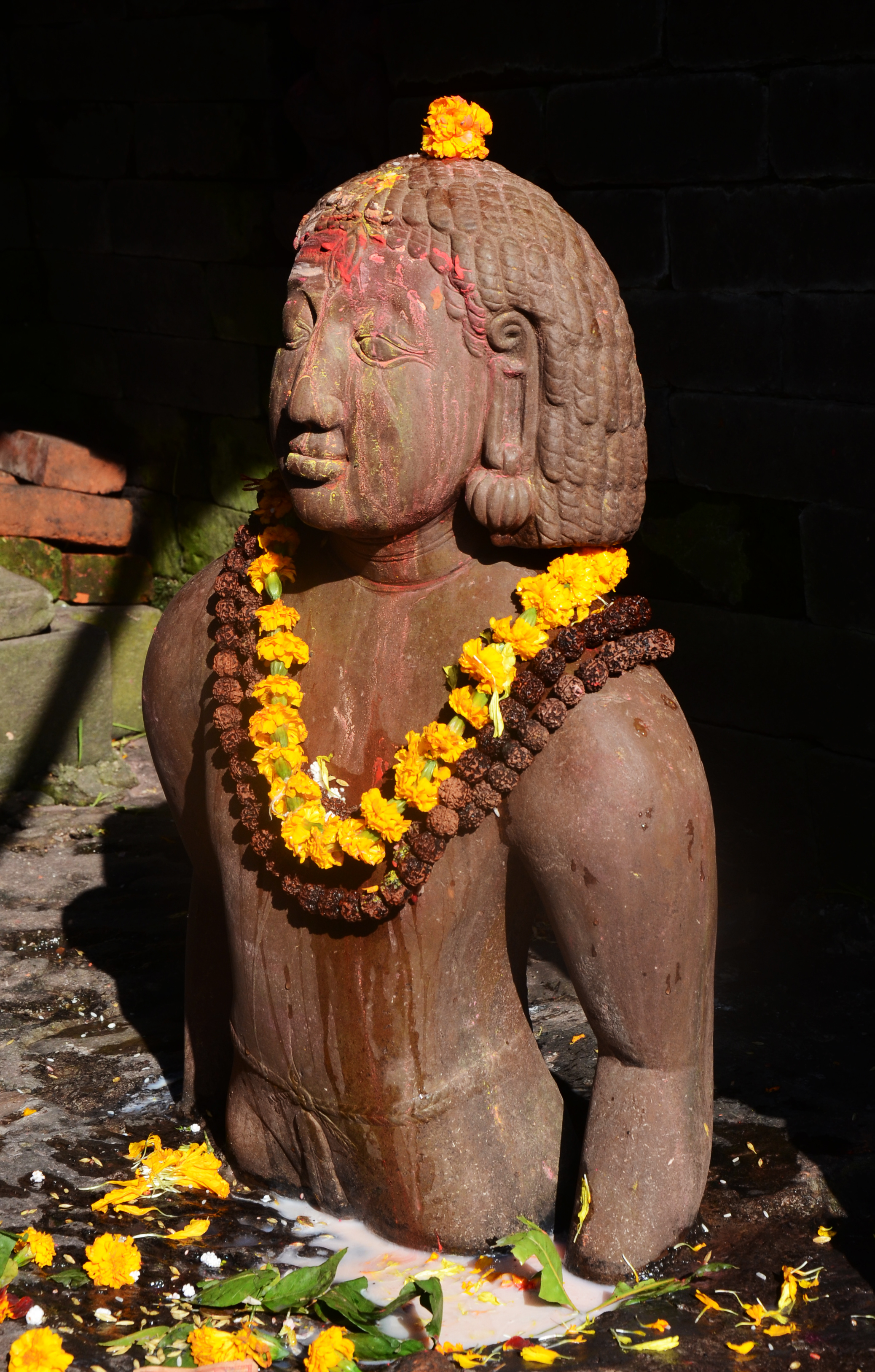 Birupakshya, Kirateswor Mahadev at Pashupatinath temple, Kathmandu 2013